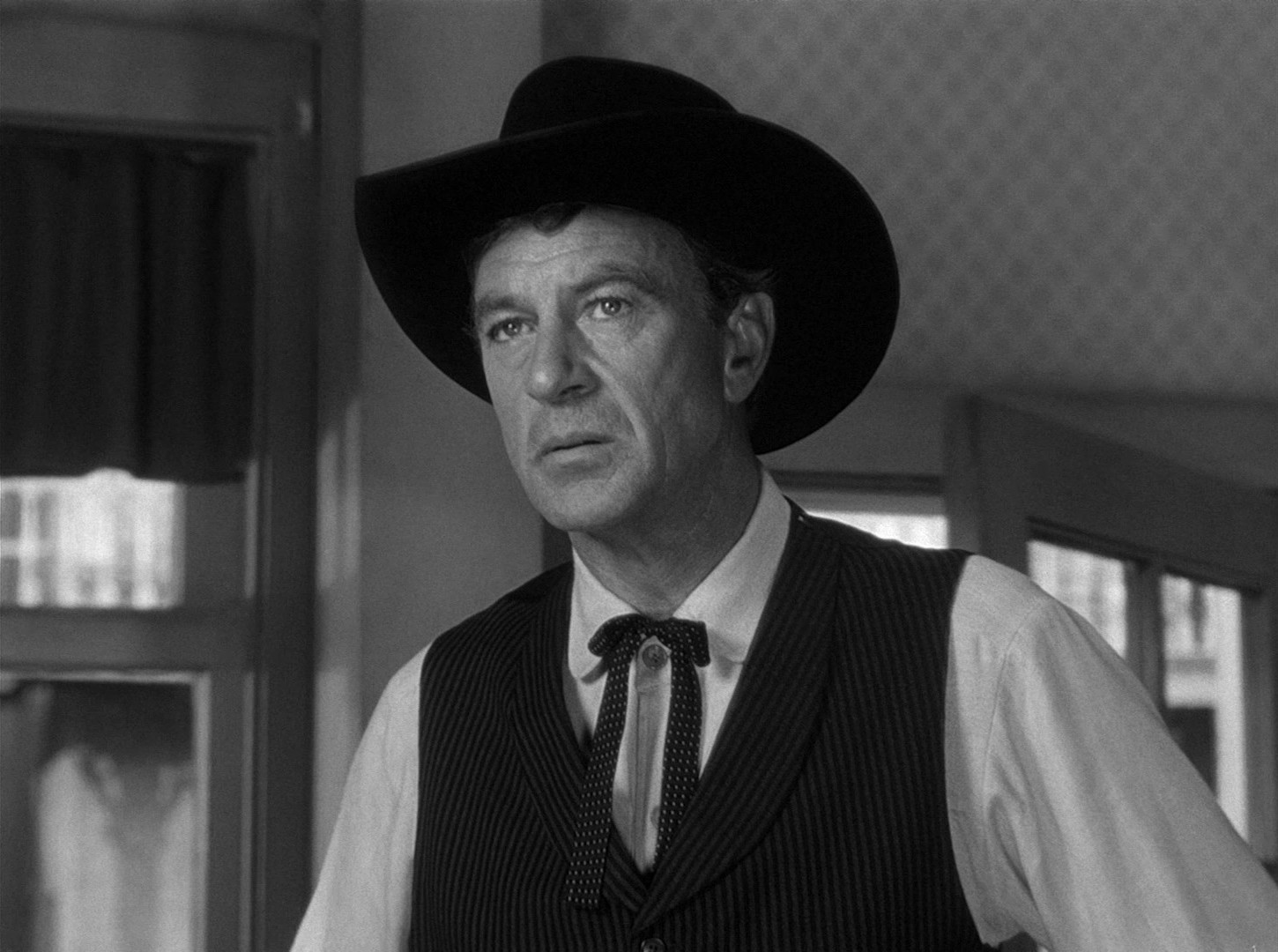 Gary Cooper in the film trailer for High Noon, 1952